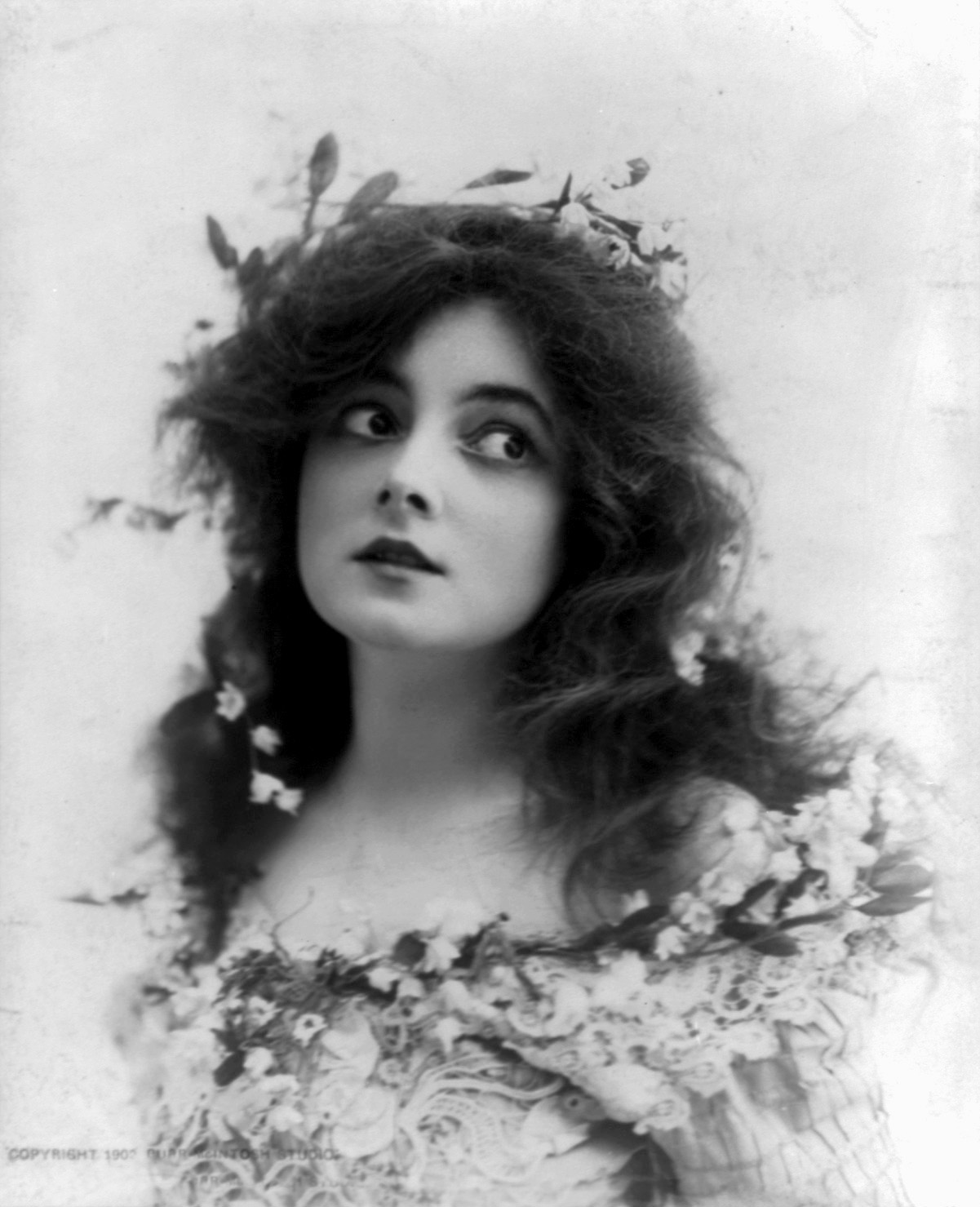 TITLE Miss Doro, no. 4 (Marie Doro) CALL NUMBER LOT 3293 [item] [P&P] REPRODUCTION NUMBER LC-USZ62-83817 (b&w film copy neg.) RIGHTS INFORMATION No known restrictions on publication. SUMMARY Head and shoulders of attractive young woman decorated with flowers. MEDIUM 1 photographic print. CREATED/PUBLISHED c1902. NOTES Photoprint copyrighted by Burr McIntosh Studio. This record contains unverified data from caption card. Caption card tracings: BI; Women--Portraits--1902; Shelf. REPOSITORY Library of Congress Prints and Photographs Division Washington, D.C. 20540 USA DIGITAL ID (b&w film copy neg.) cph 3b30393 CONTROL # 2002711771